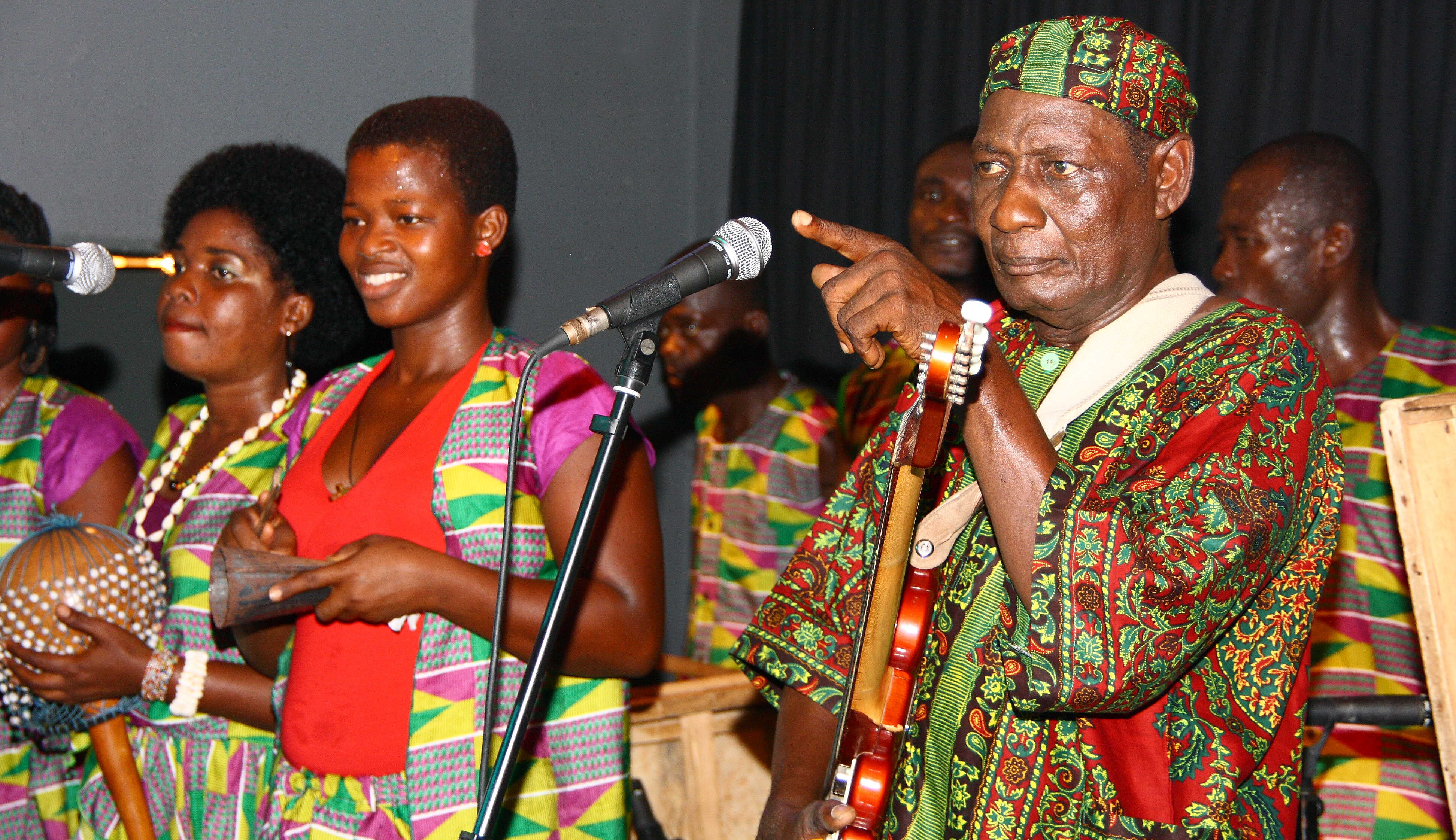 Highlife-Legend Ebo Taylor with his band Bonze Konkoma at Club W71.